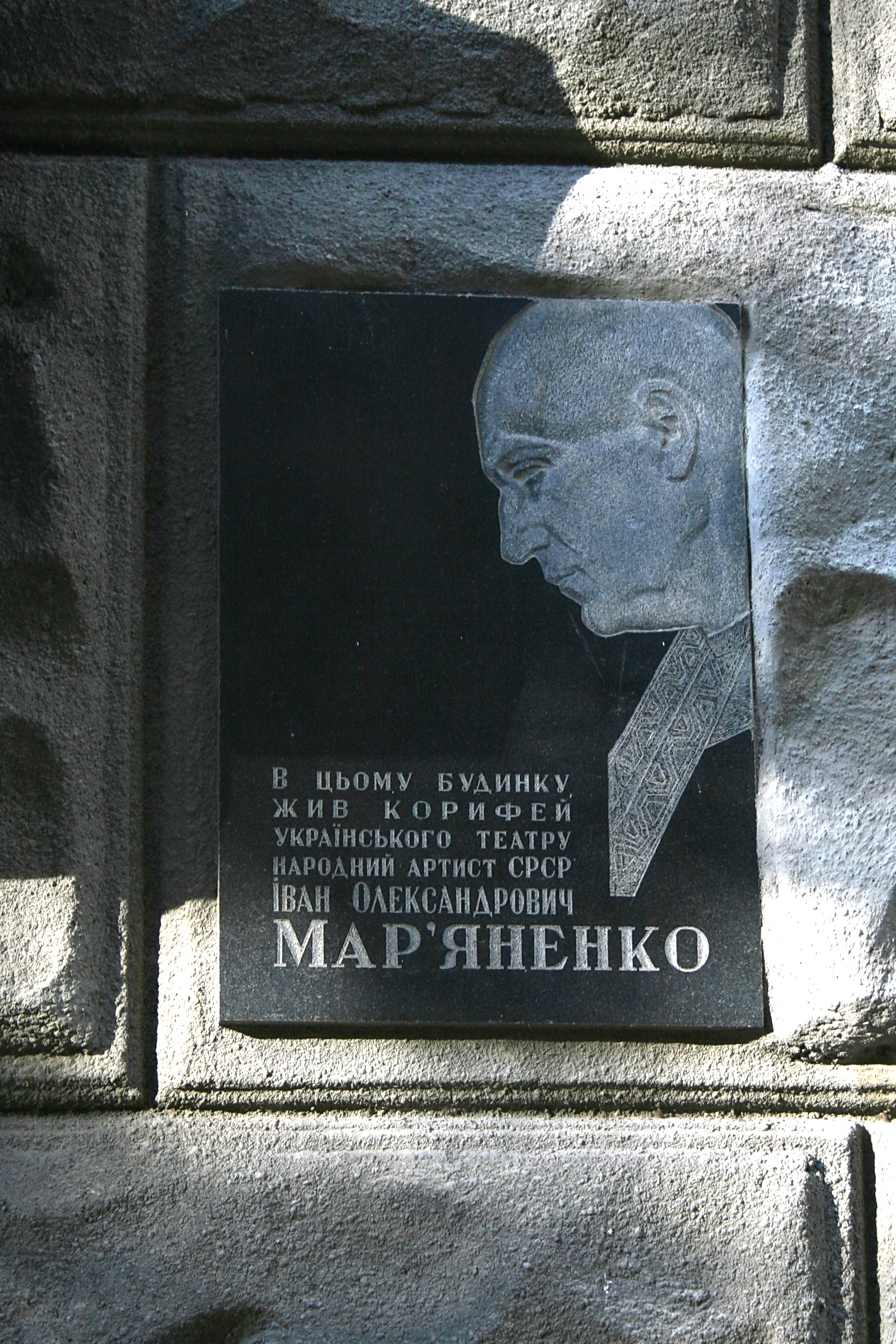 The memorial plaque on the house where Maryanenko lived - People's Artist of the USSR